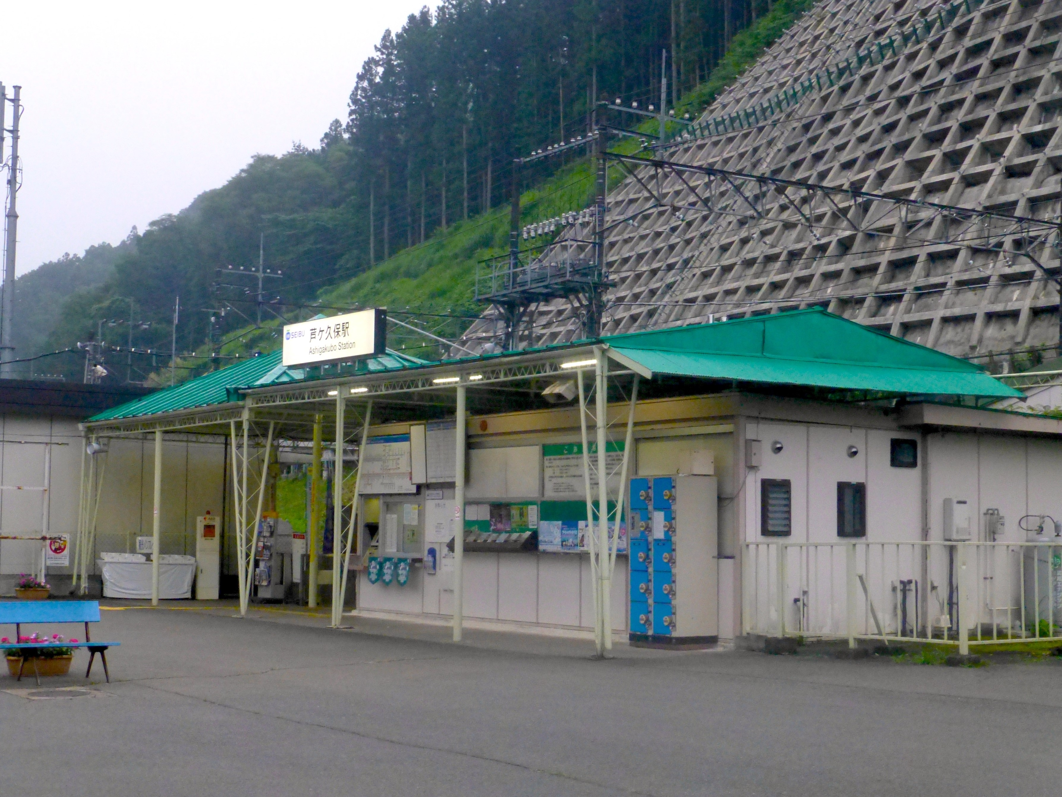 Ashigakubo Station on the Seibu Chichibu Line in Saitama Prefecture, Japan